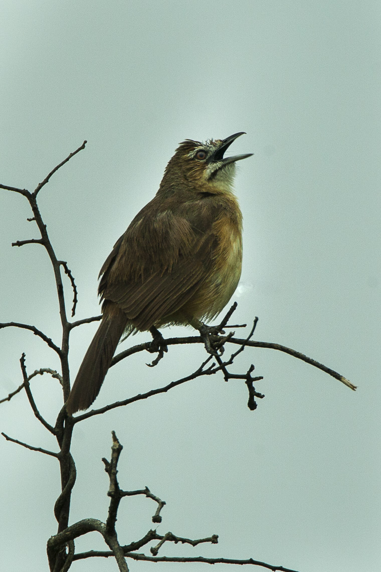 African Moustached Warbler - Murchison Falls NP - Uganda_5294